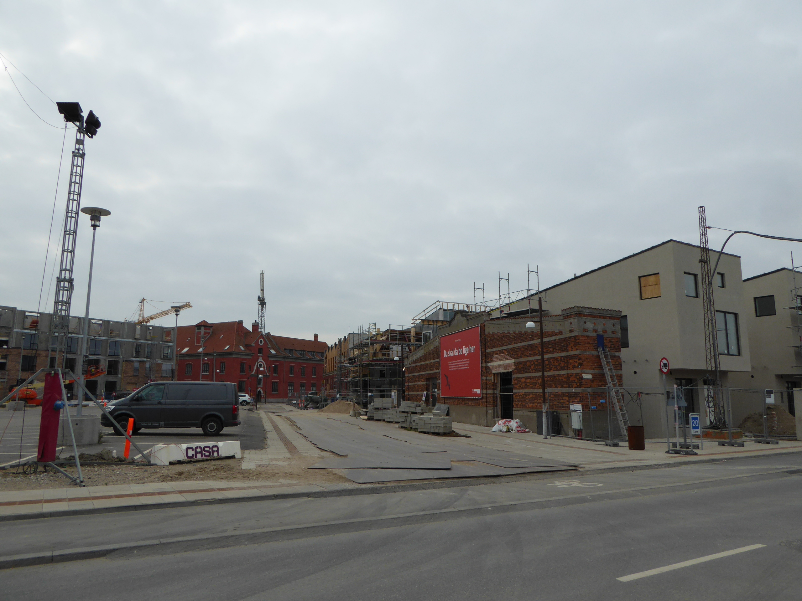 The street Sassnitzgade at Helsinkigade in Nordhavn in Copenhagen.